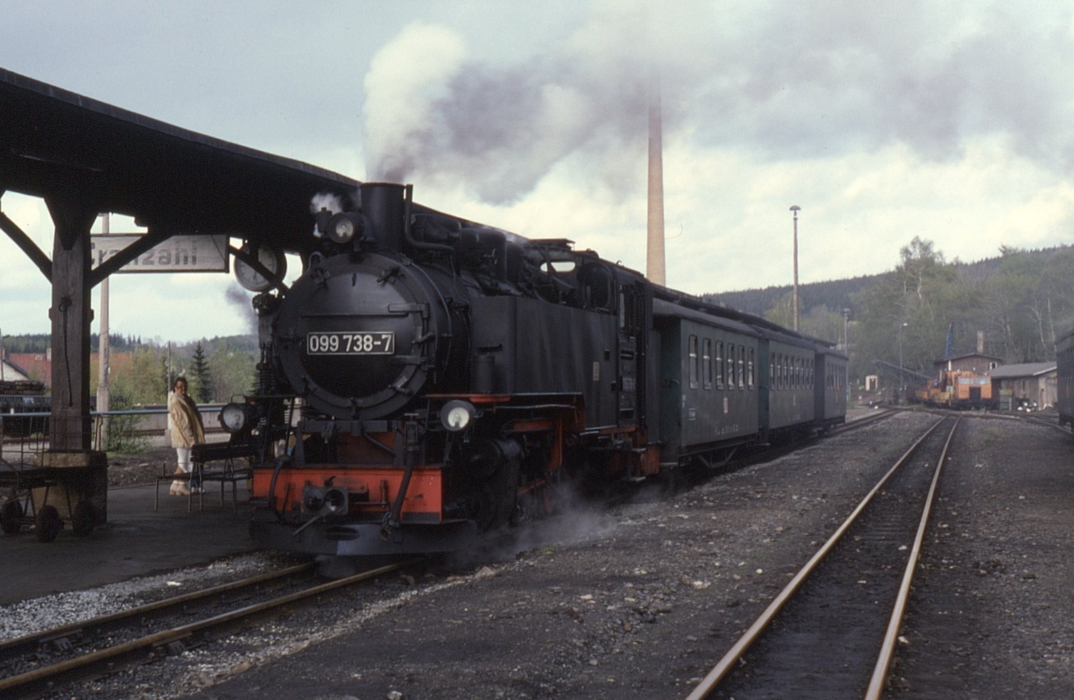 Start of the journey on the 750mm Cranzahl to 14.05.95 Kurort-Oberwiesenthal line on 14 May 1995. Seen here is 099.738 on train 6923, 18:19 Cranzahl to Kurort Oberwiesenthal.